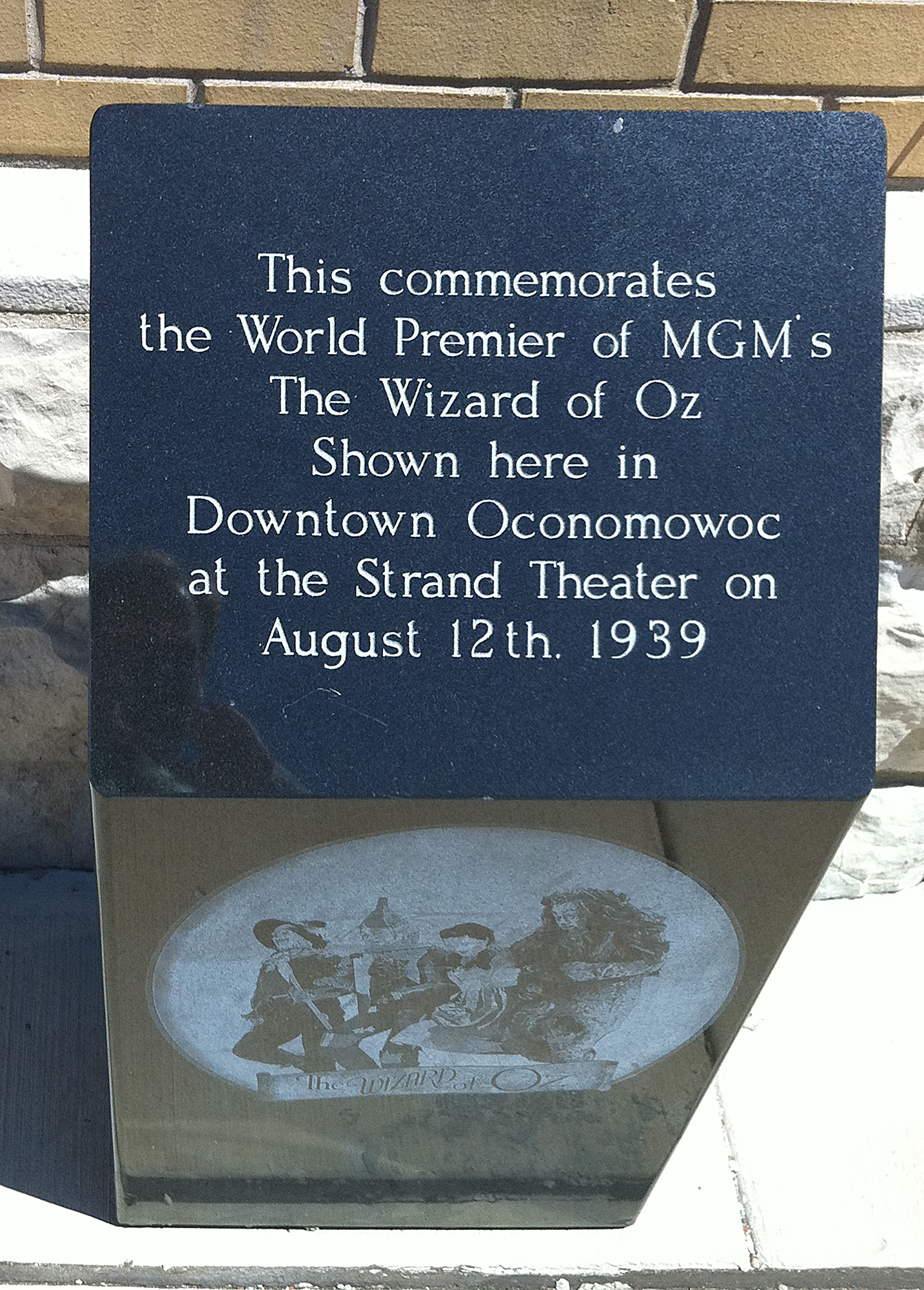 A memorial commemorating the premiere of Wizard of Oz at the Strand Theater in Oconomowoc, Wisconsin, created by Justin W. Hutter